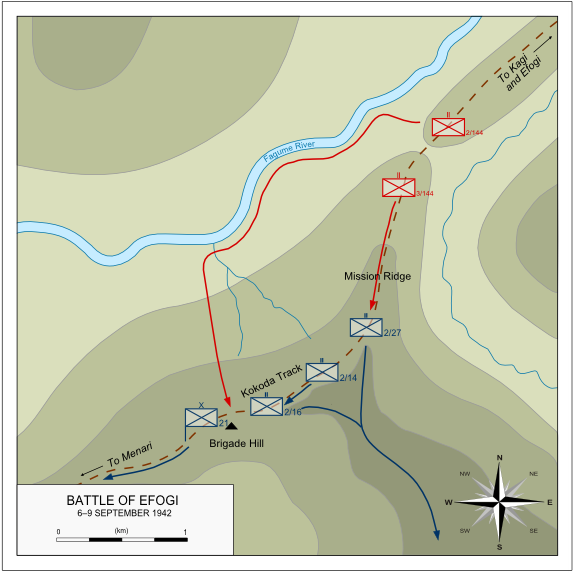 Map illustrating the Battle of Mission Ridge – Brigade Hill, which took place 6–9 September 1942.